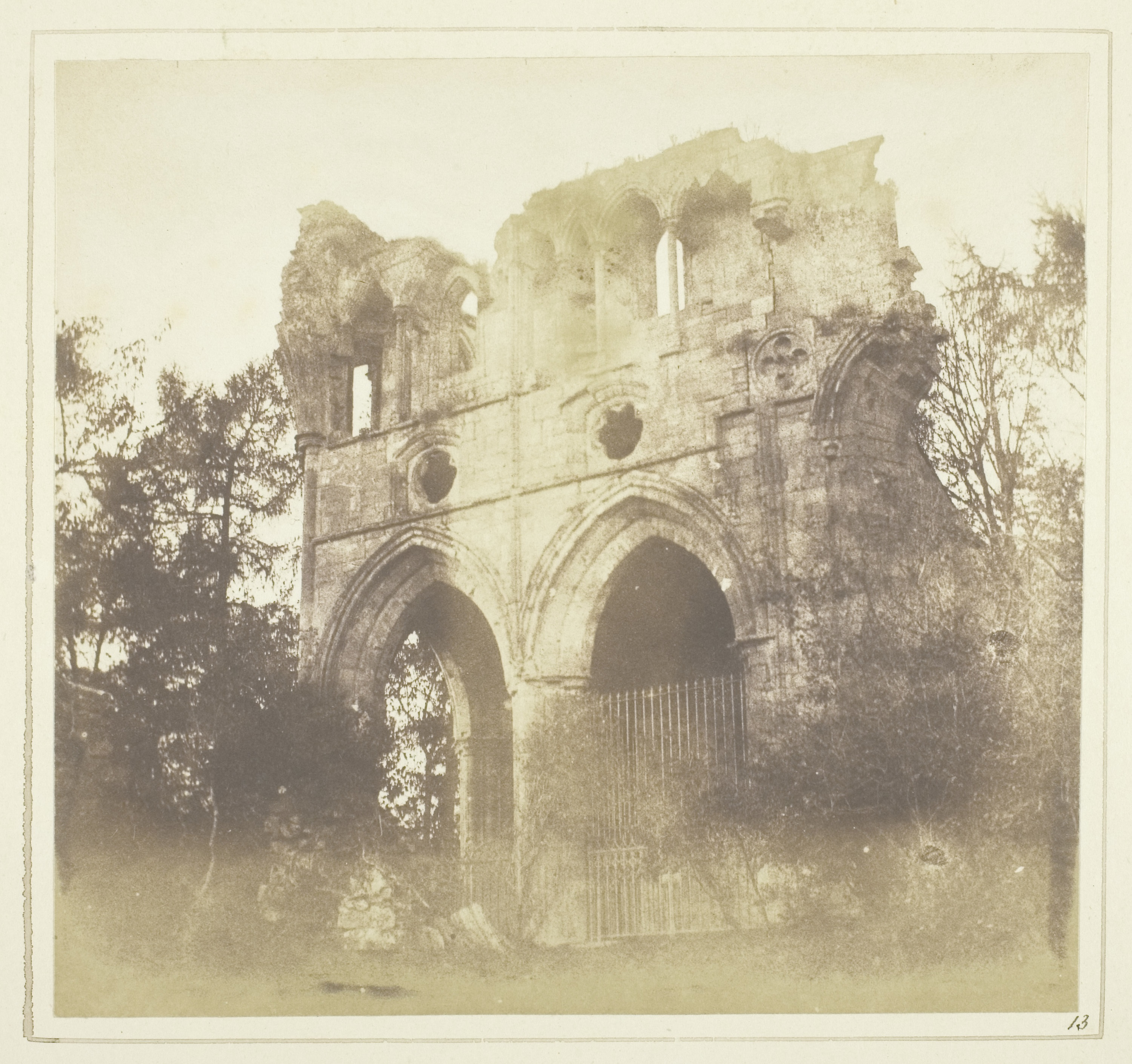 Salted paper print by Henry Fox Talbot, plate XIII from the album "Sun Pictures in Scotland" (1845)